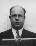 William A. Fowler Los Alamos wartime security badge.